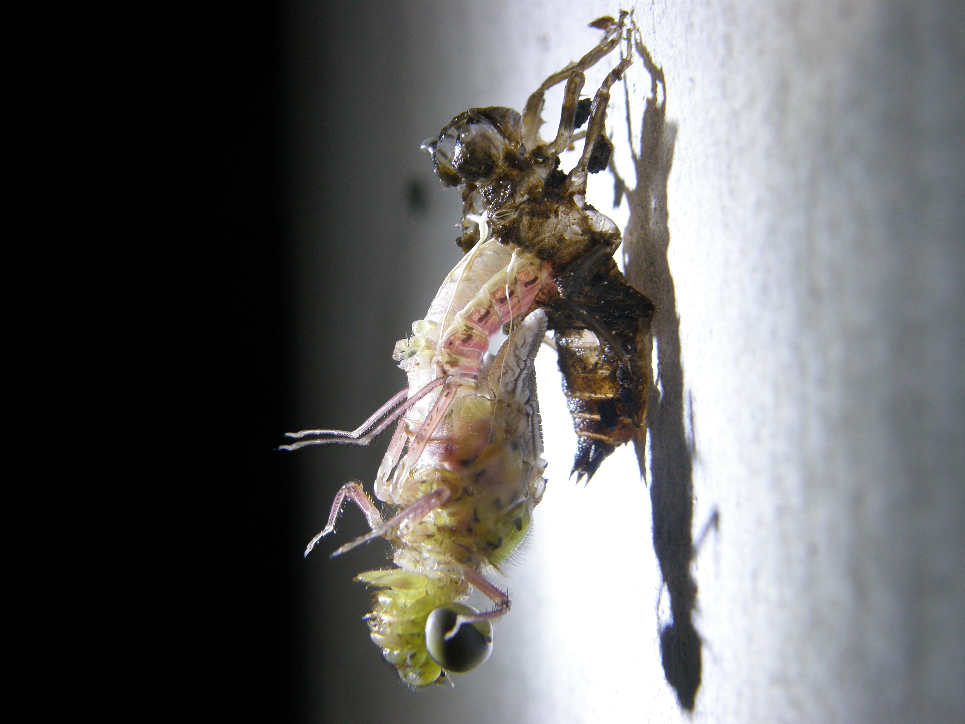 A dragonfly emerging from its larval skin. In only about 15 minutes it has already expanded to about twice the size of its larval self.